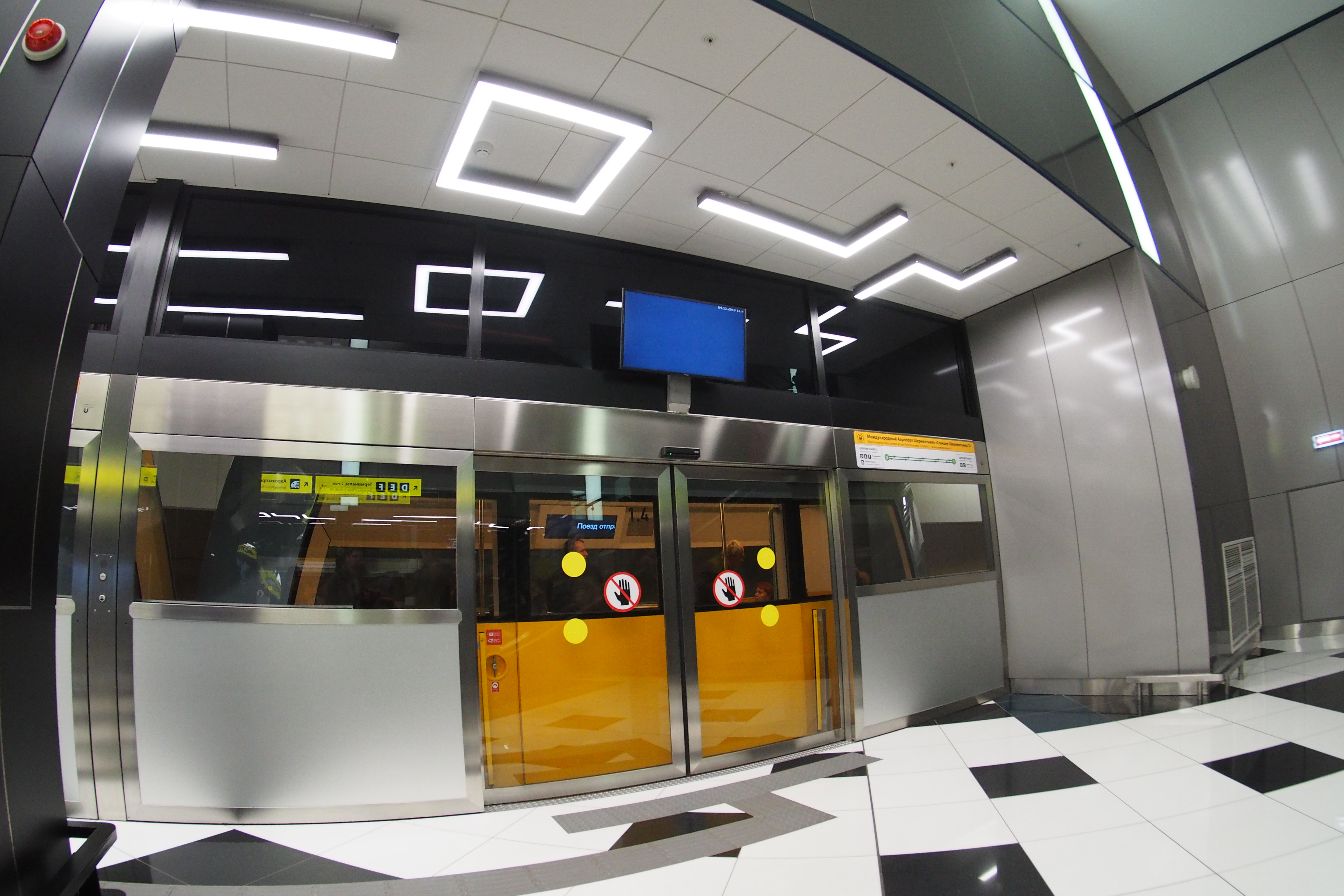 Sheremetyevo people mover